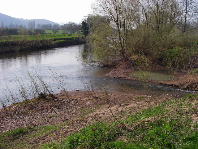 Abergavenny This is the confluence of the River Gavenny/Afon Gafenni with the River Usk/Afon Wysg from which the town draws its name. Curiously this - 'Abergavenny' - is the English name, the Welsh name being simply 'Y Fenni'.